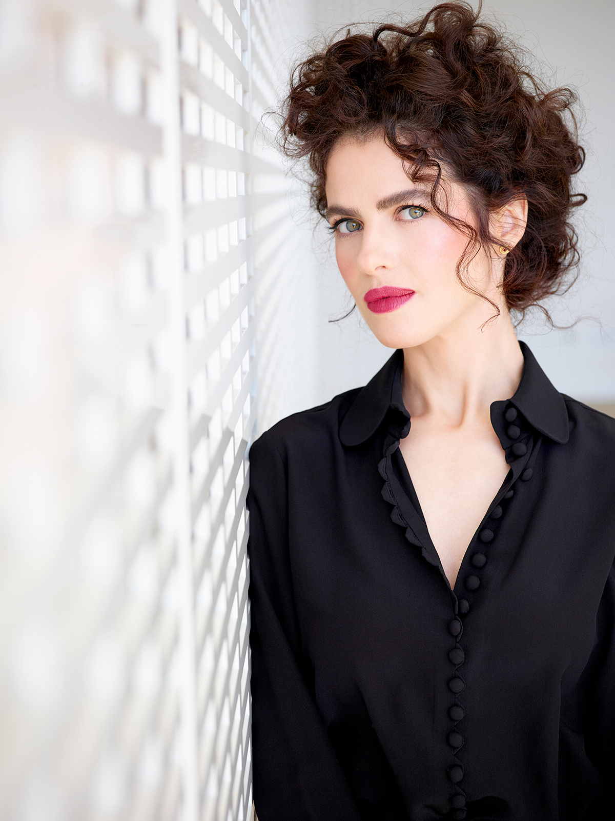 Image: Neri Oxman Photo Credit: Noah Kalina